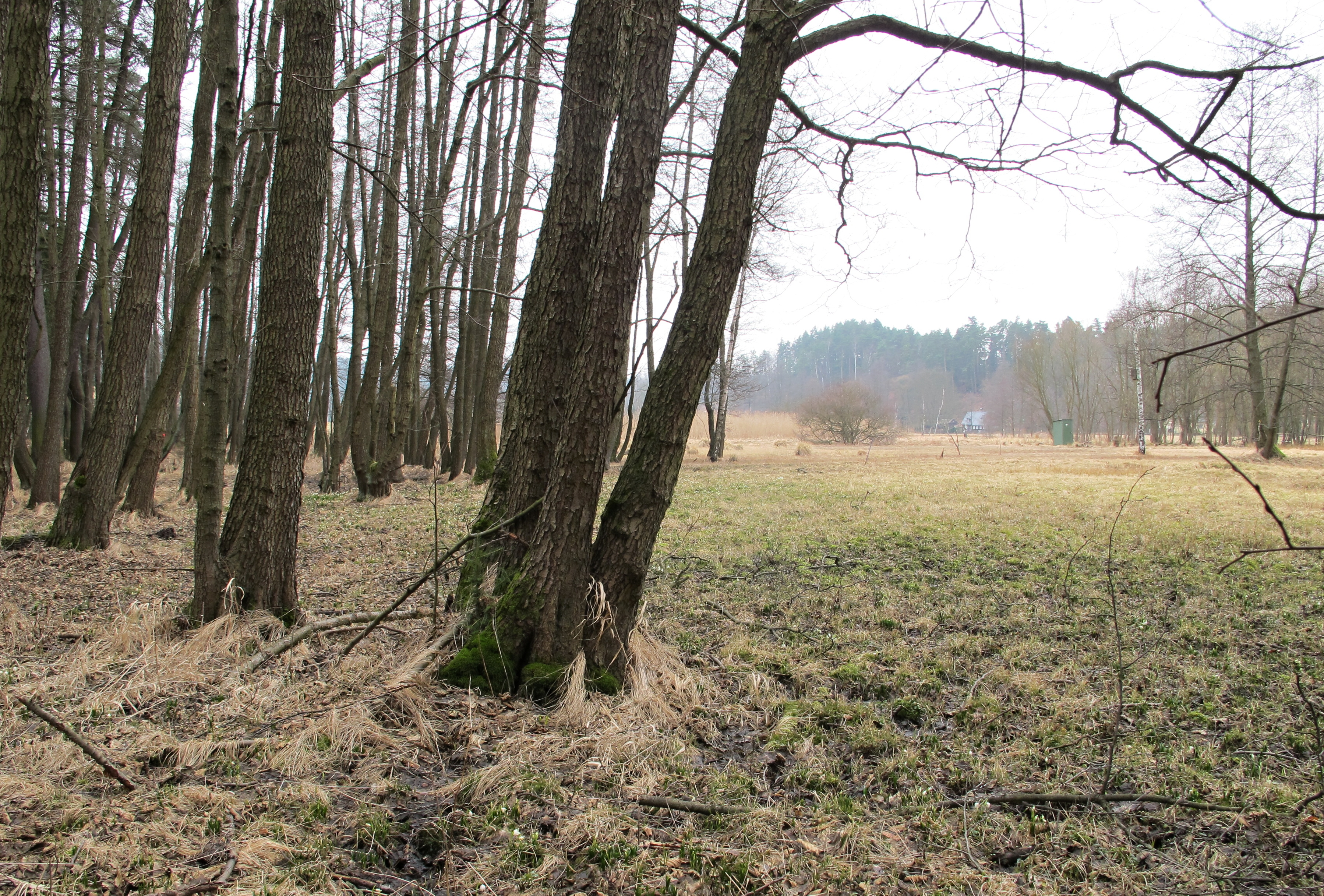 Nature reserve Arba in Srbská Kamenice, Děčín District (Czech Republic)